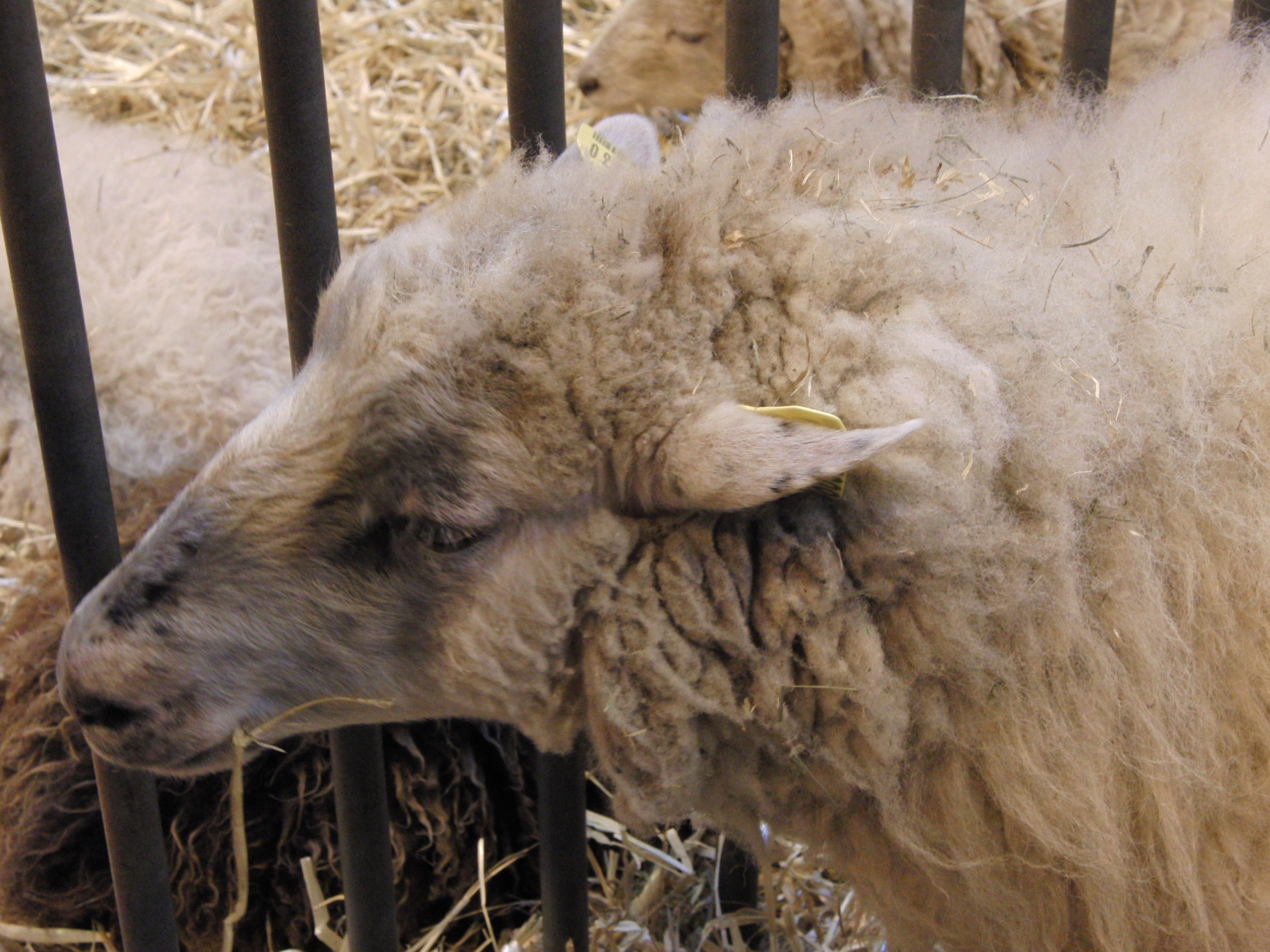 Landes de Bretagne sheep's head - Paris International Agricultural Show 2011, Paris, France